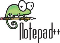 Logo of the free text editor Notepad++.